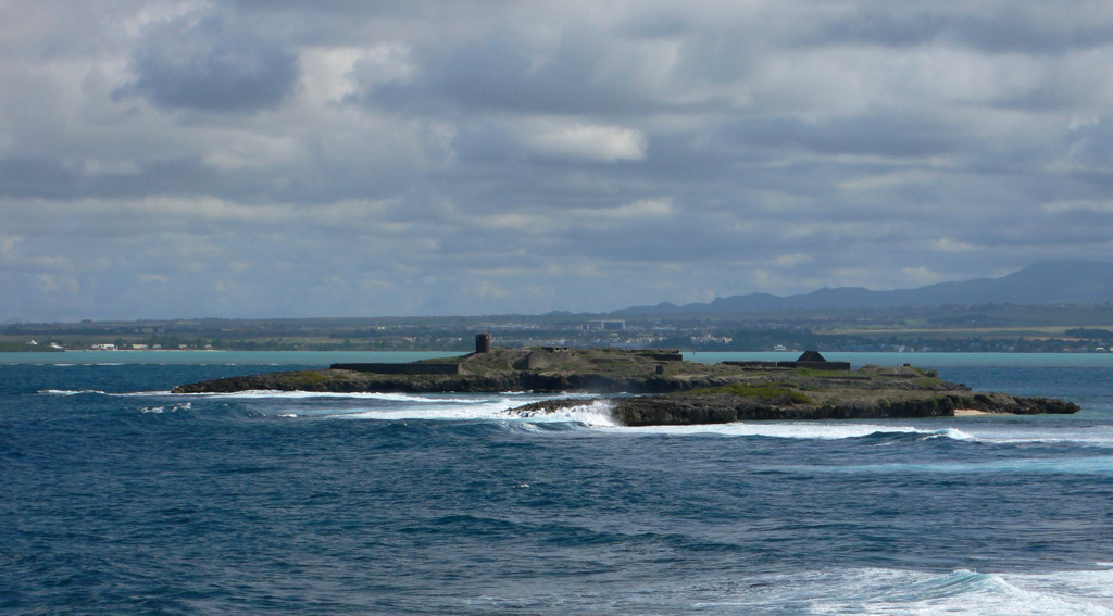 View of the Île de la Passe seen from the neighbouring Île au Phare. In the background the coast of Mauritius with the town of Mahébourg and the international airport.